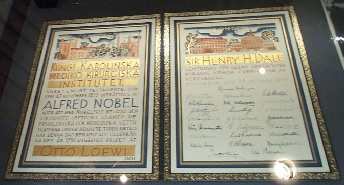 The Nobel Prize diploma of Henry Hallett Dale, awarded in 1936 and displayed in the Royal Society, London. Copyright 2004 Kaihsu Tai. Permission is granted to copy, distribute and/or modify this document under the terms of the GNU Free Documentation License, Version 1.2 or any later version published by the Free Software Foundation; with no Invariant Sections, no Front-Cover Texts, and no Back-Cover Texts. A copy of the license is included in the section entitled "Text of the GNU Free Documentation License". Subject to disclaimers.